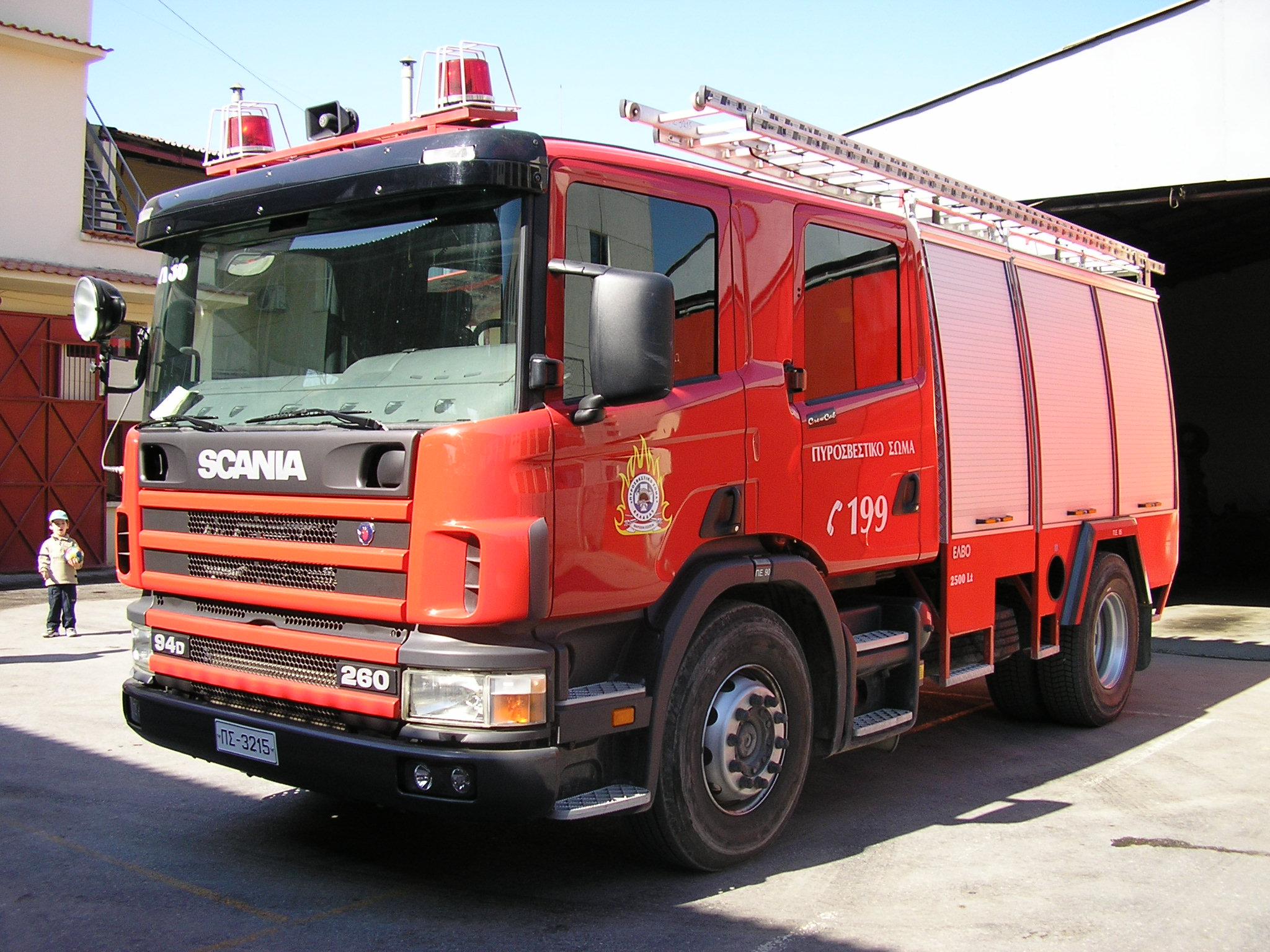 Vehicle of the Fire Service of Greece.